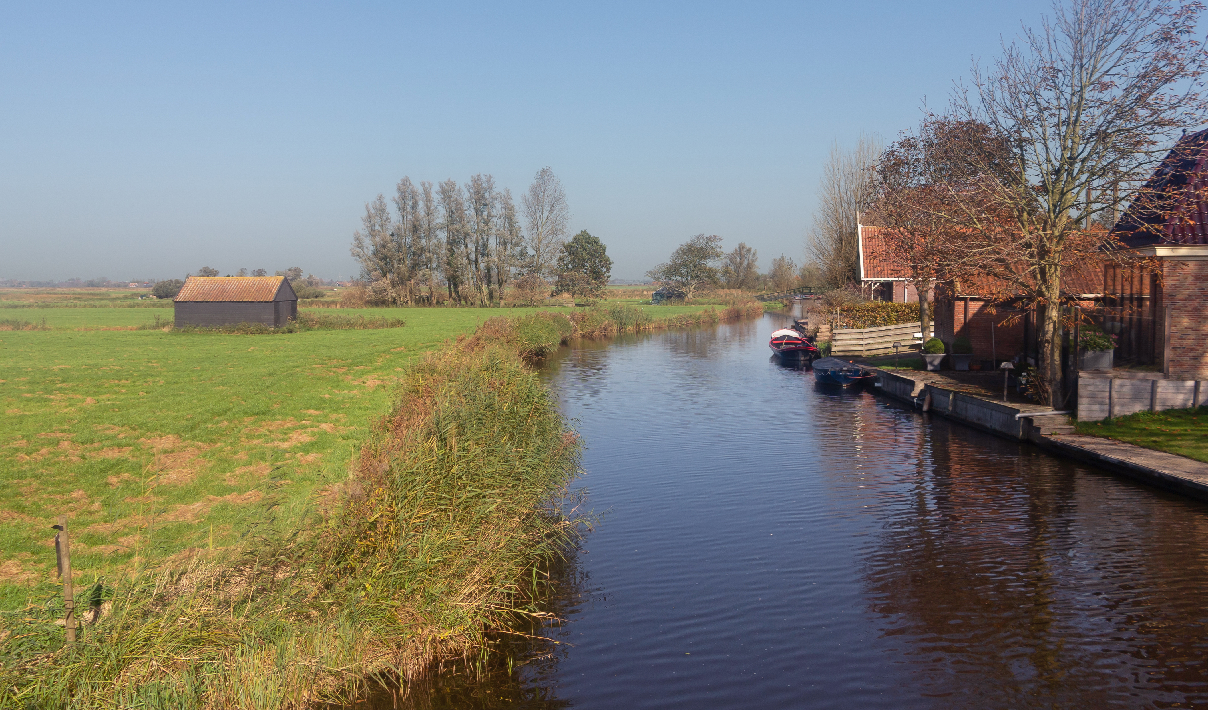 near Graft, canal in the polder